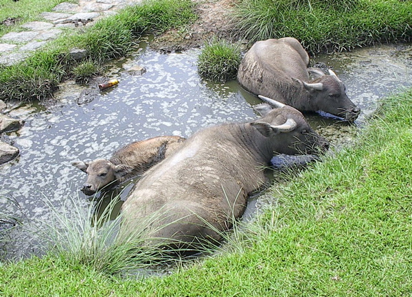 Water buffalo bathing in a sinkhole in Taiwan.